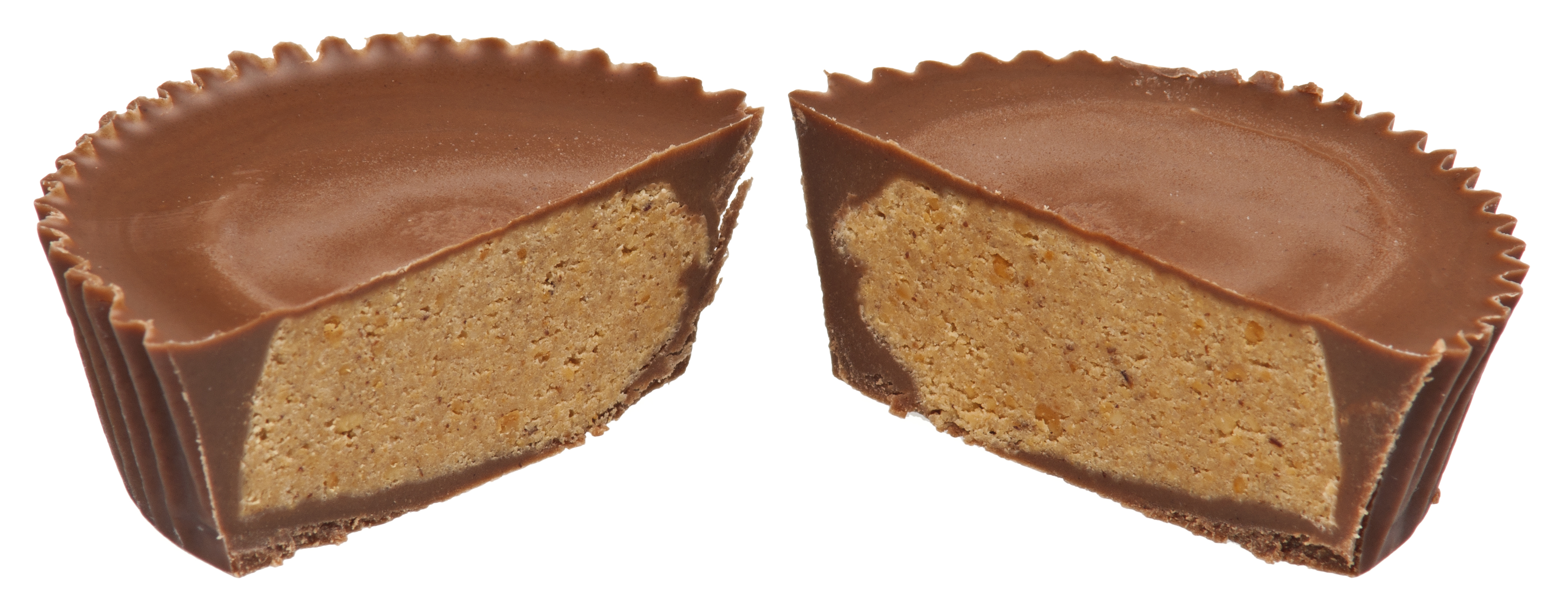 A Reese's Peanut Butter Cup, Big Cup.